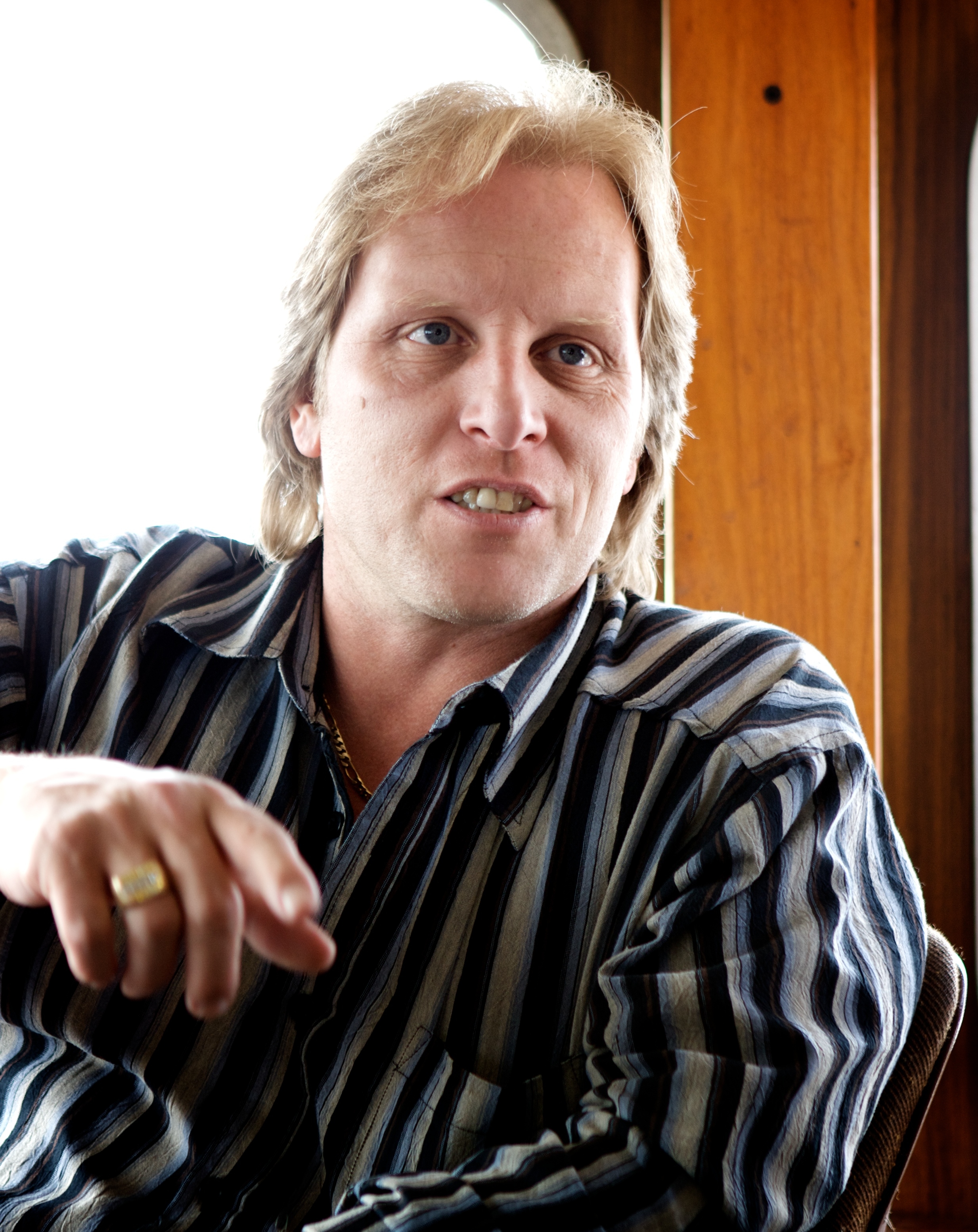 Sig Hansen at the helm of the Northwestern